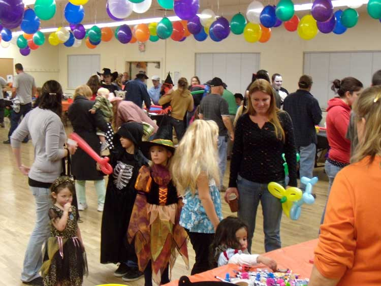 People of the Mountain Communities of the Tejon Pass at a Halloween celebration in Frazier Park, on October 31, 2008. Photo by George Garrigues.